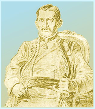 Petar I Petrovic Njegos as a warrior (by drawing an unknown Frenchman). The beginning of the 19th Ages.Srpski (latinica): Vladika Petar I Petrović Njegoš kao ratnik (po crtežu nepoznatog francuza). Početak 19. vijeka.